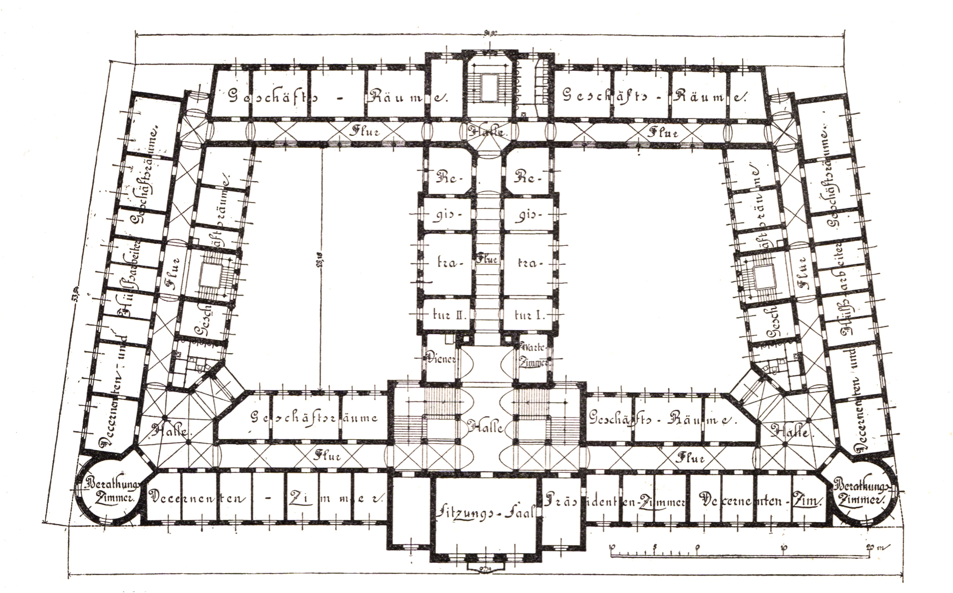 Berlin - Königliche Eisenbahndirektion, plan first floor